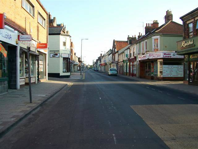 Gorleston High Street